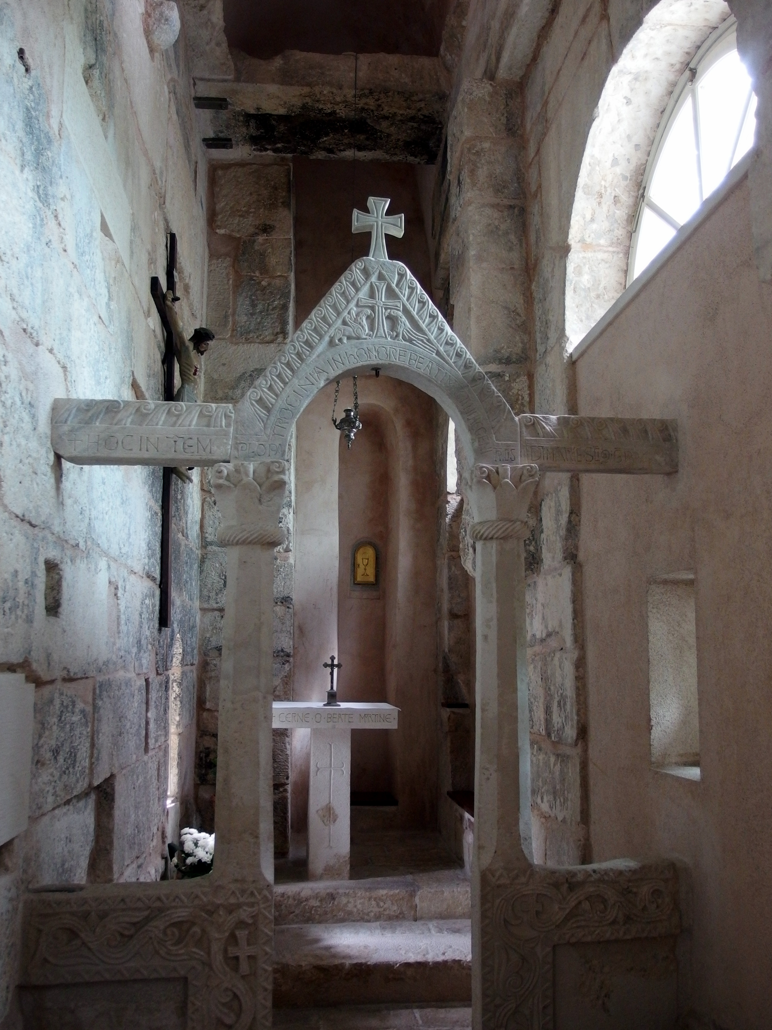 2013-06-03 in Split.